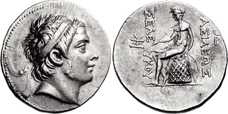 SELEUKID KINGS of SYRIA. Seleukos III Soter (Keraunos). 226-223 BC. AR Tetradrachm (16.95 g, 12h). Antioch mint. Diademed head right / BASILEWS SELE-UKOU, Apollo Delphios seated left on omphalos, holding arrow in right hand, resting left on bow set on ground; monograms to outer left and right. SC 921.1; Le Rider, Antioche 31-79 (obv. die A3); WSM 1029. EF, a few light marks. From the Richard Winokur Collection.